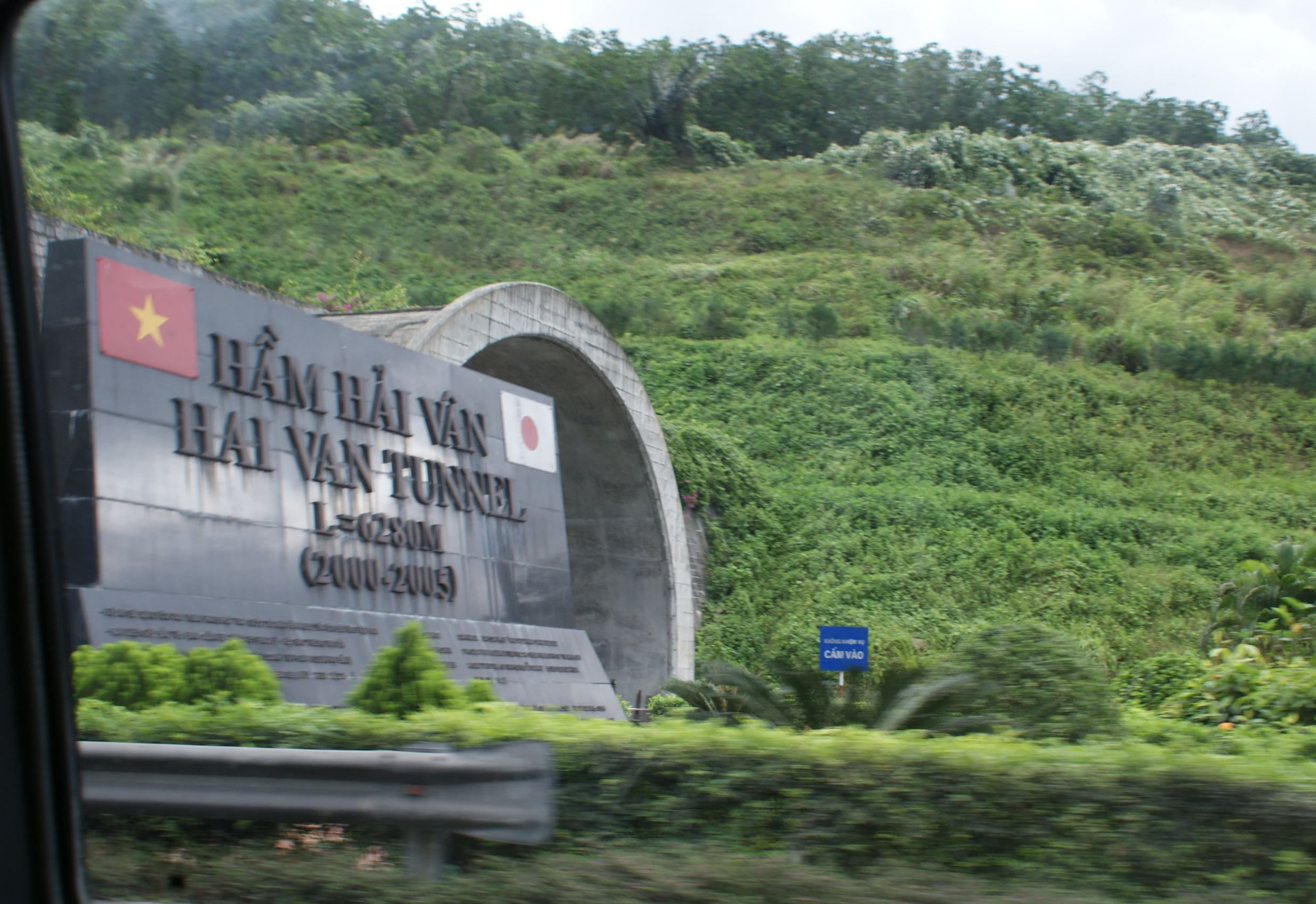 The sign at the south end of the Hai Van Tunnel, taken from a vehicle just before entering.